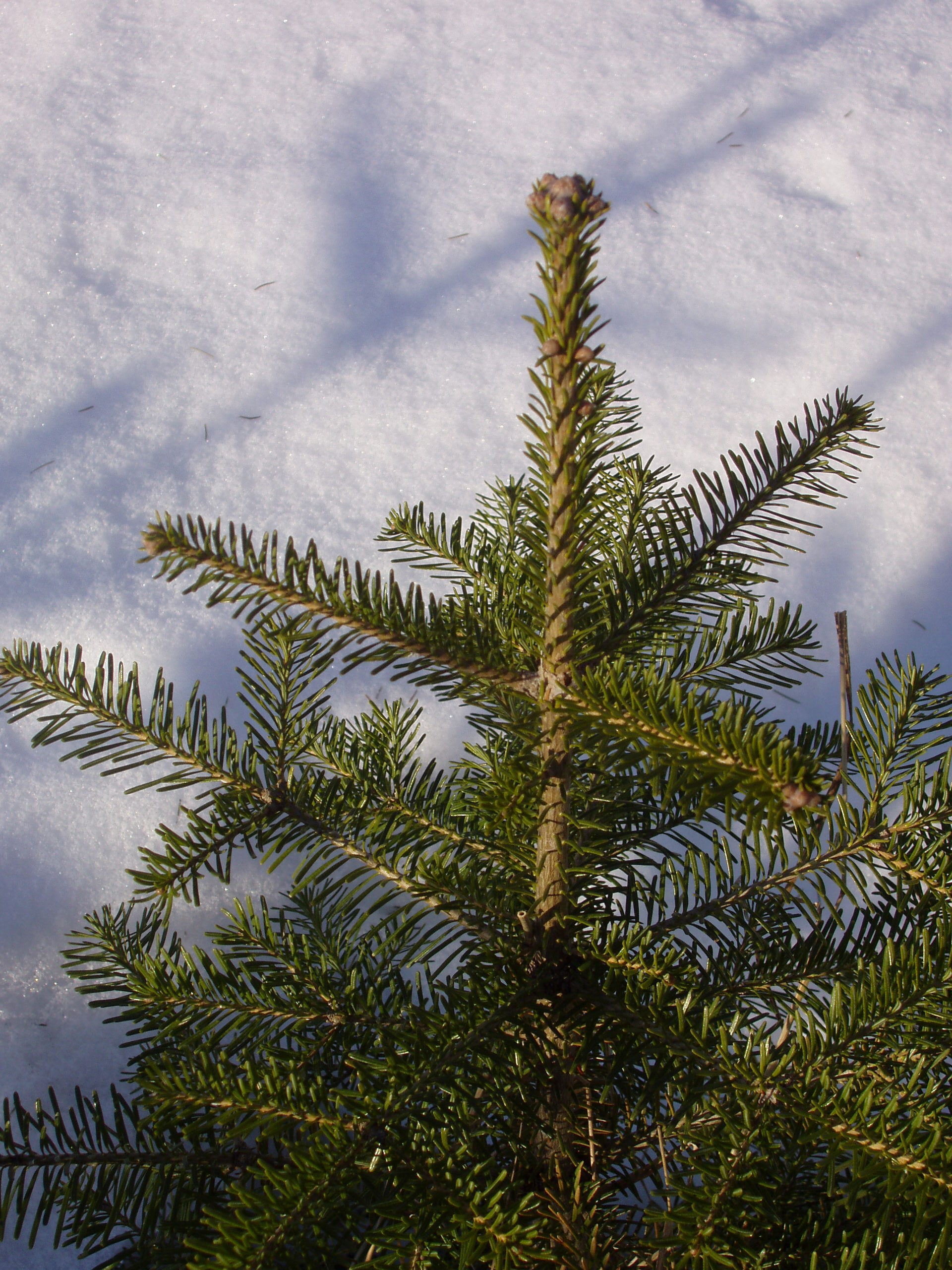 top of young Abies lasiocarpa